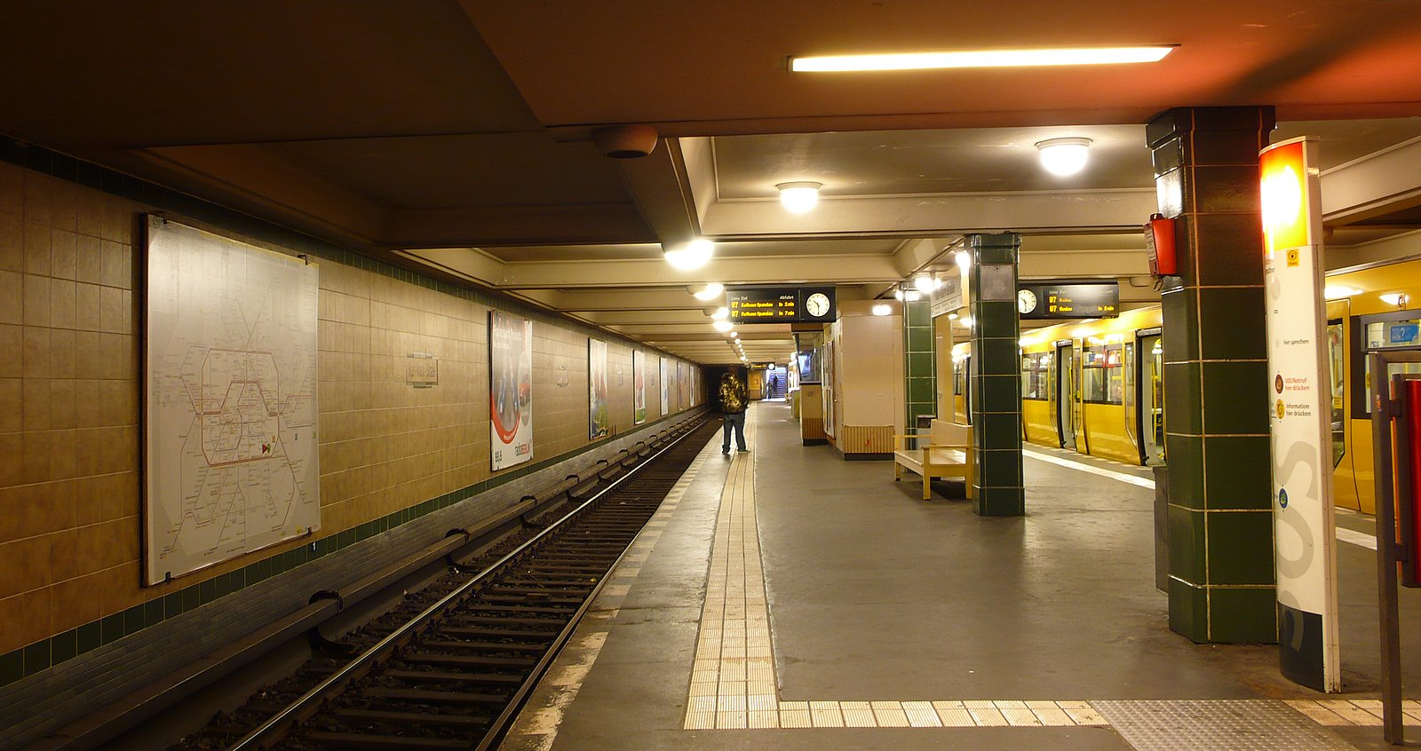 Subway Karl Marx-str